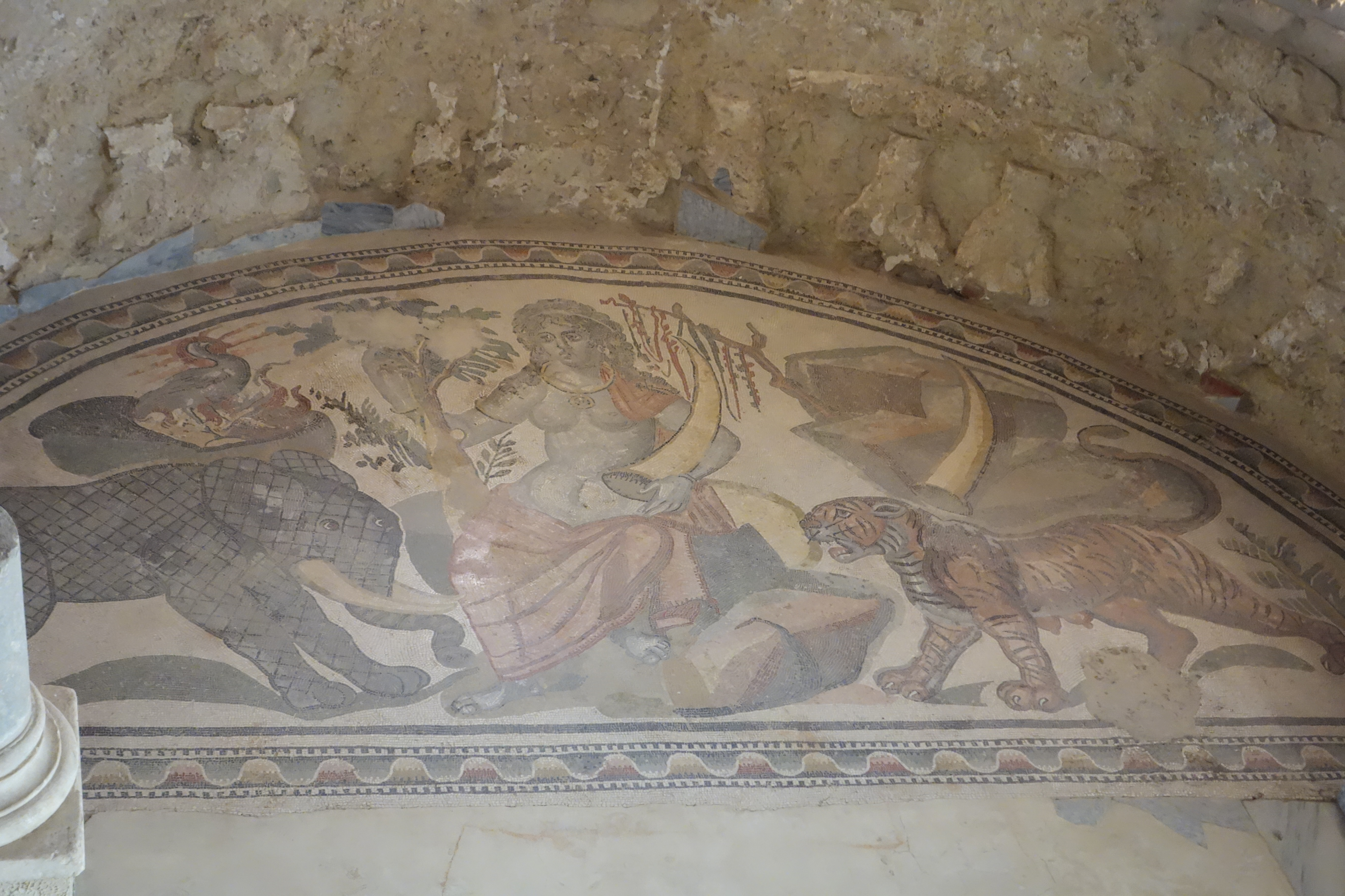 Mosaic in the southern apse of the corridor of the hunt. Personification of Ethiopia holding an elephant tusk. A phoenix with halo sits on its nest, with egg.